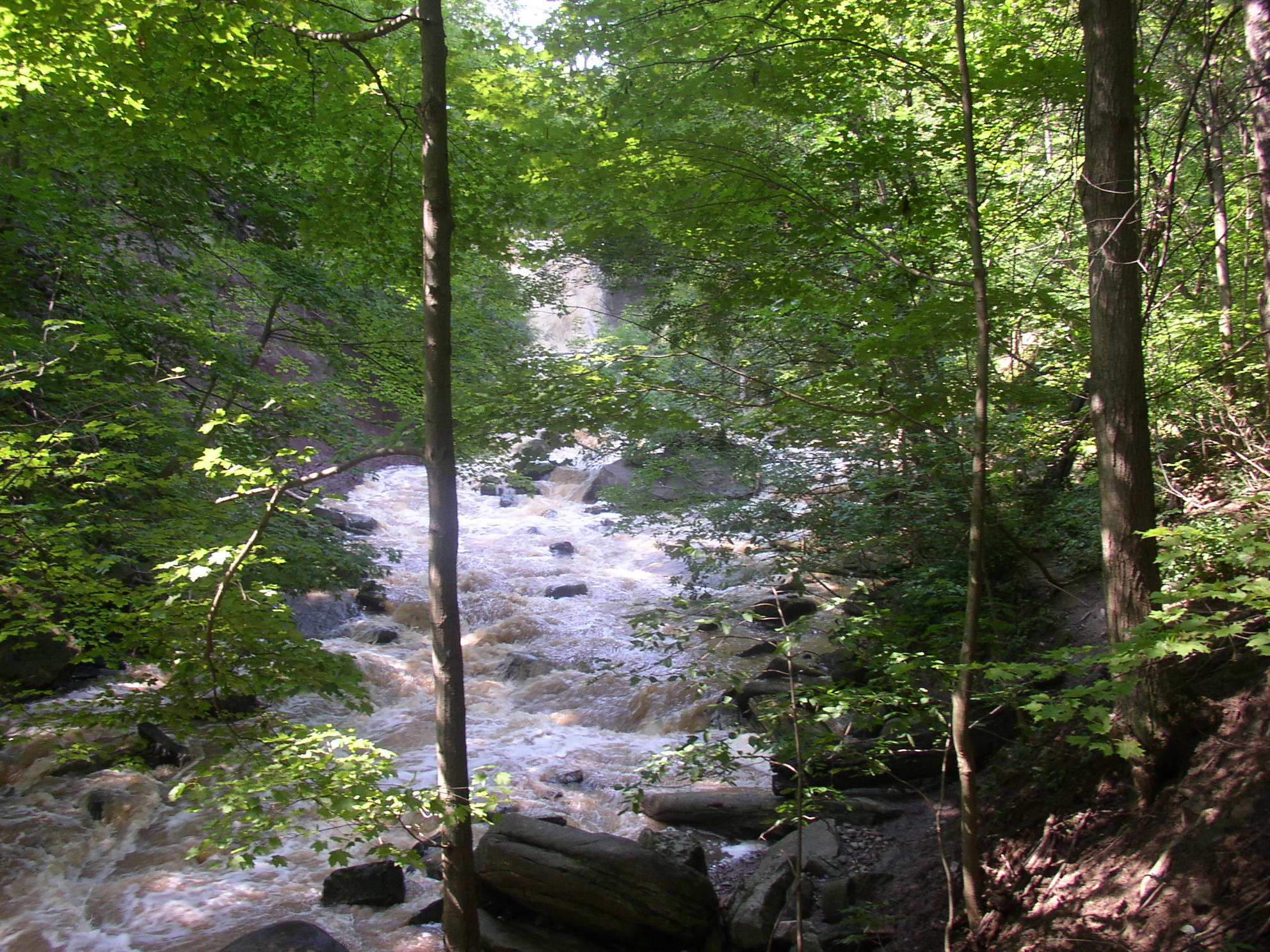 Boundary Falls, Waterdown